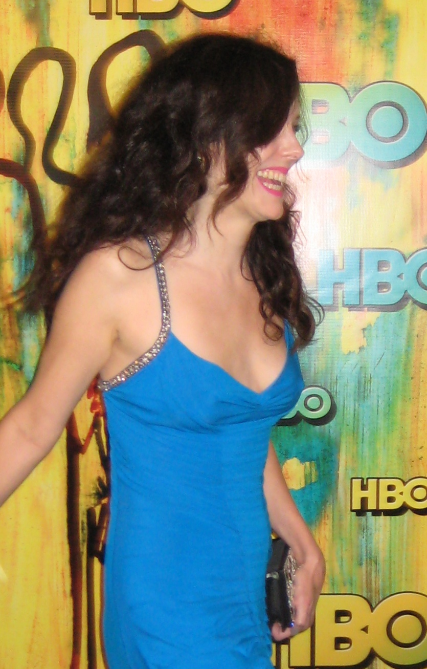 HBO Post-Emmys Party, Pacific Design Center, Sept. 21, 2008